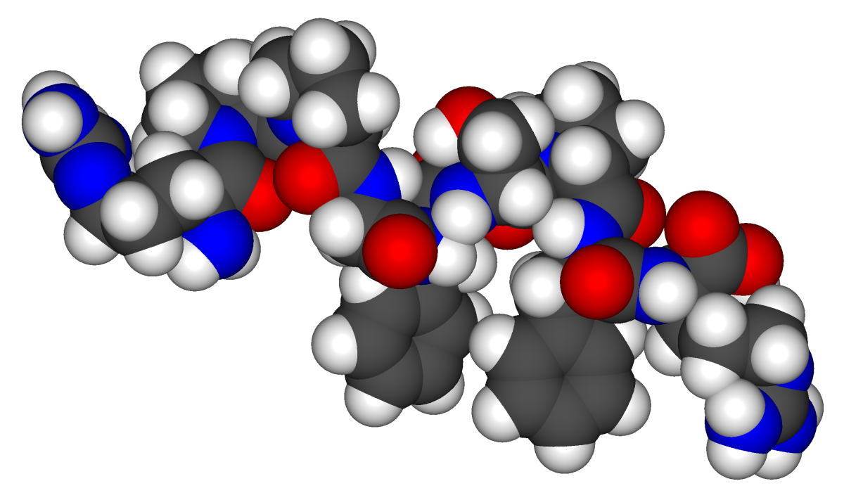 Space-filling model of bradykinin. Created using Accelrys DS Visualizer Pro 1.6 and GIMP.